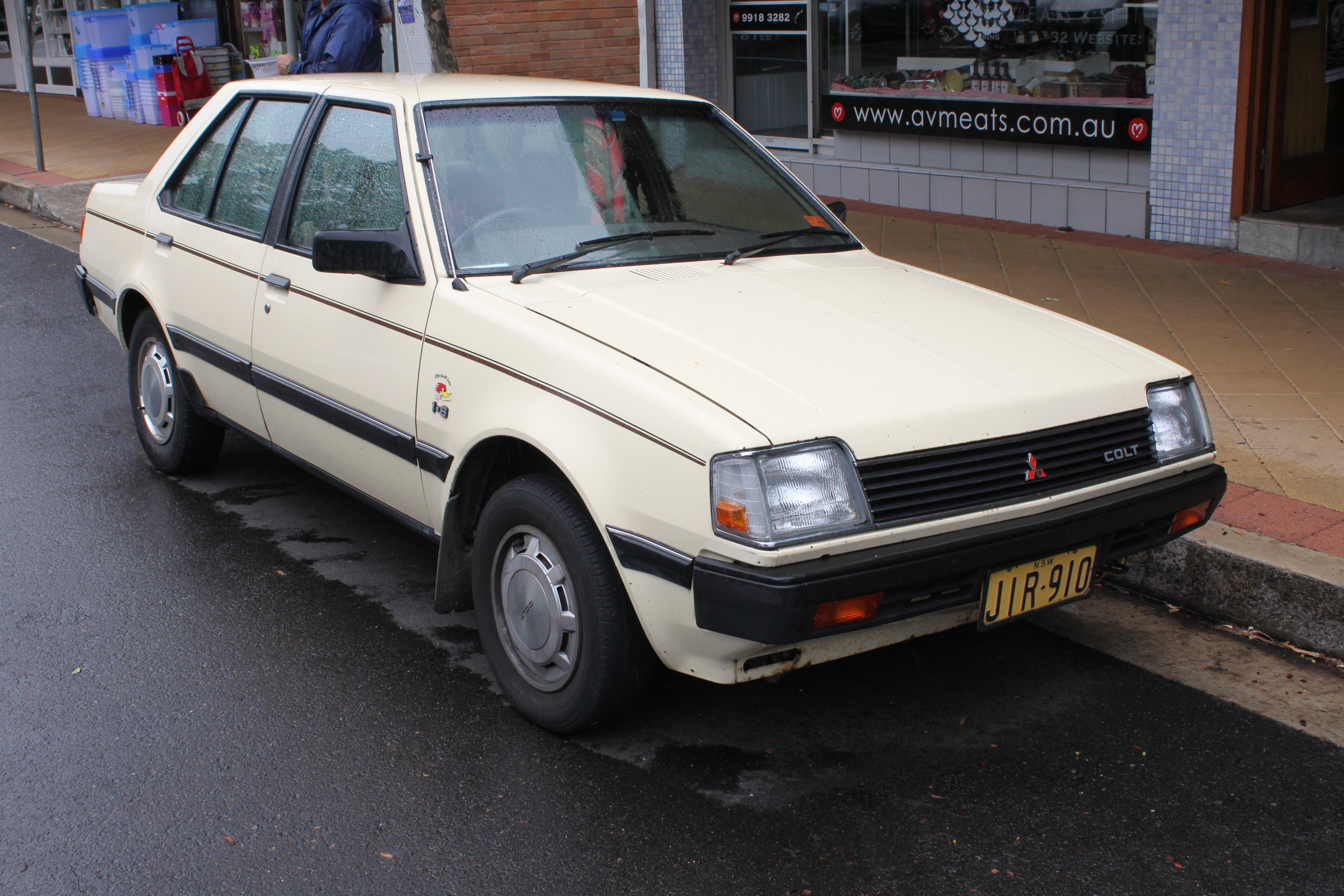 Mitsubishi Colt RC SE